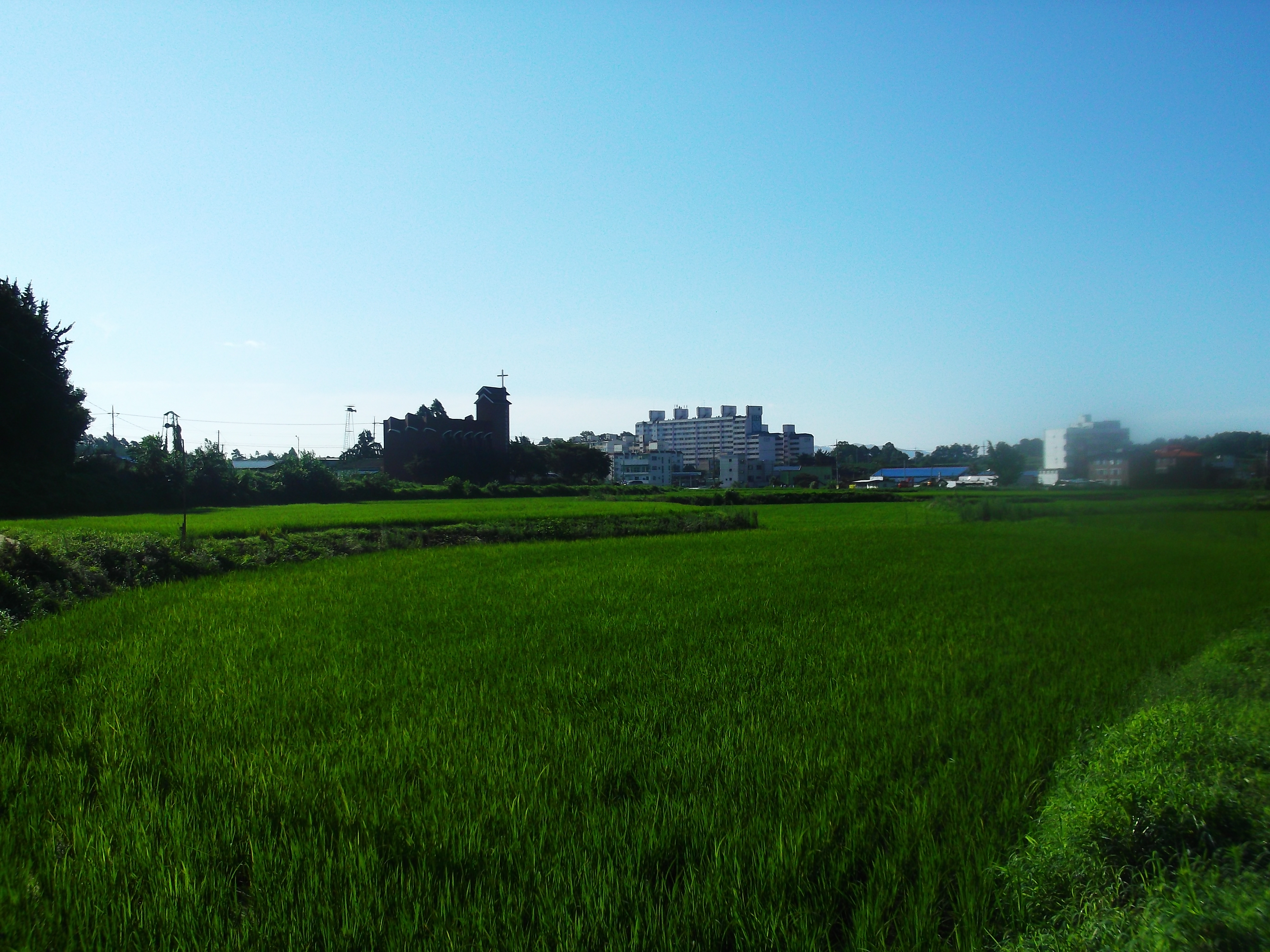 Rice paddies, Samseong myeon, Eumseoung-gun. ROK